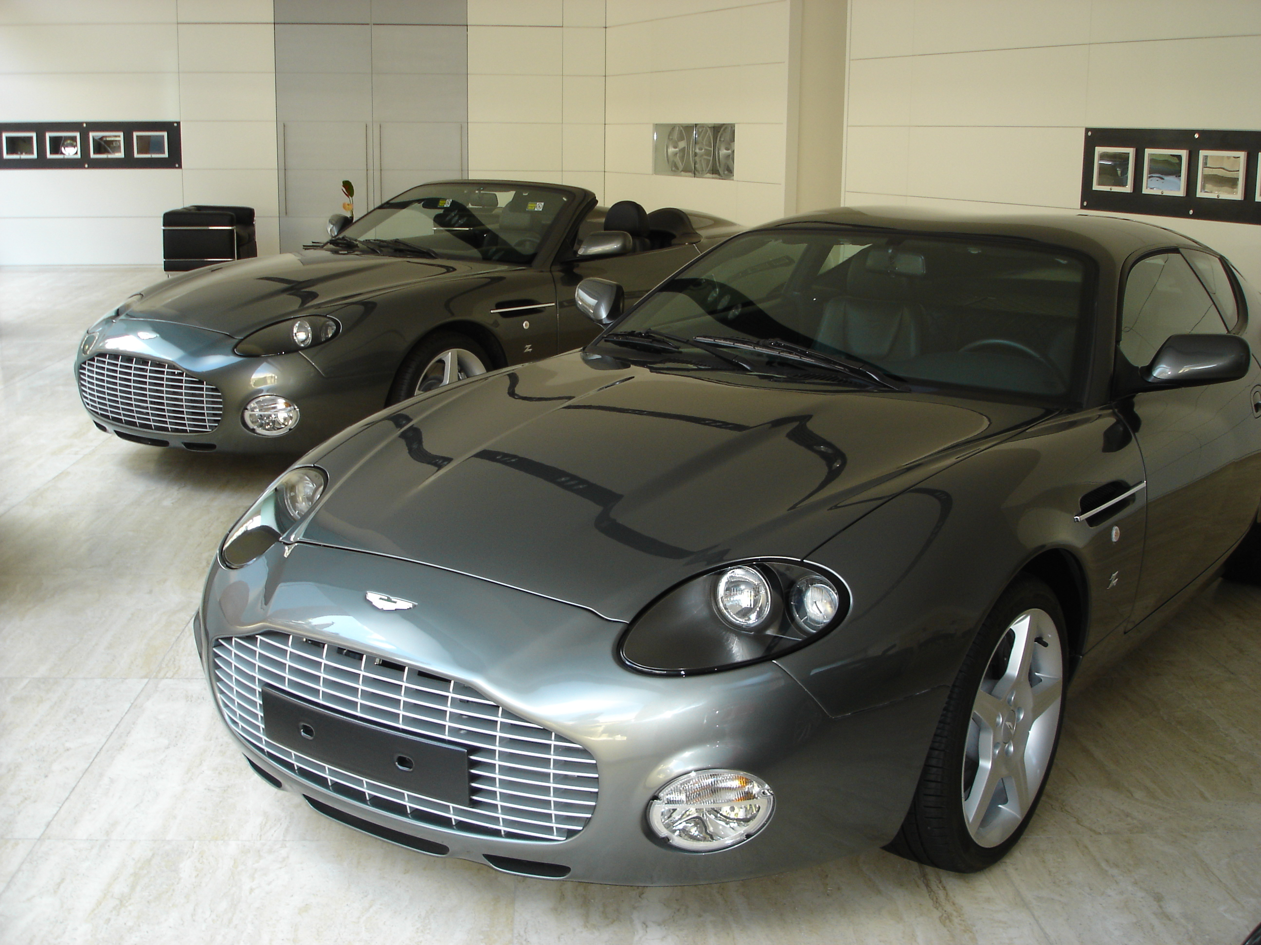 2003 Zagato Coupe and Roadster. Photographed by Jagvar at Aston Martin of Paris in Paris, France in August 2004.